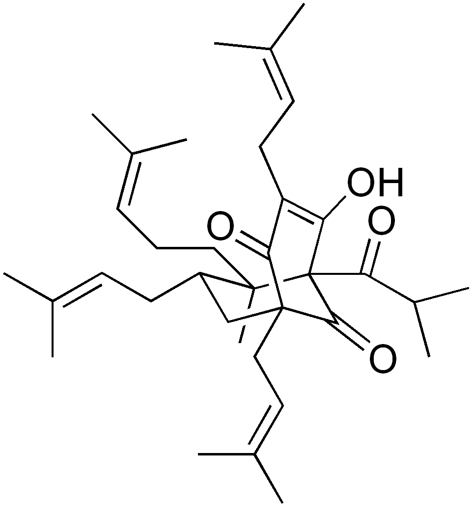 chemical structure of hyperforin